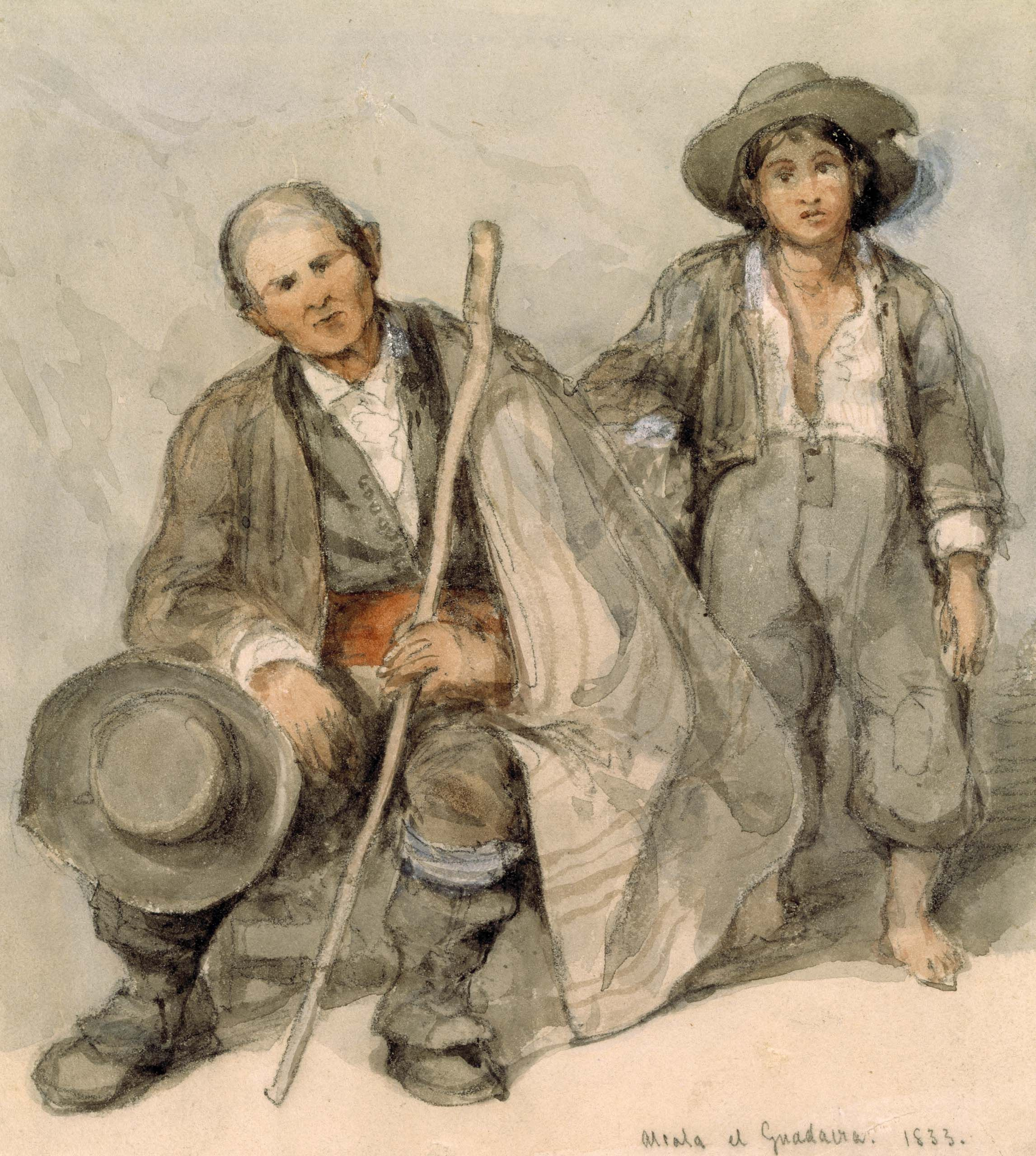 Study of Spanish Peasants at Alcalá de Guadaíra.